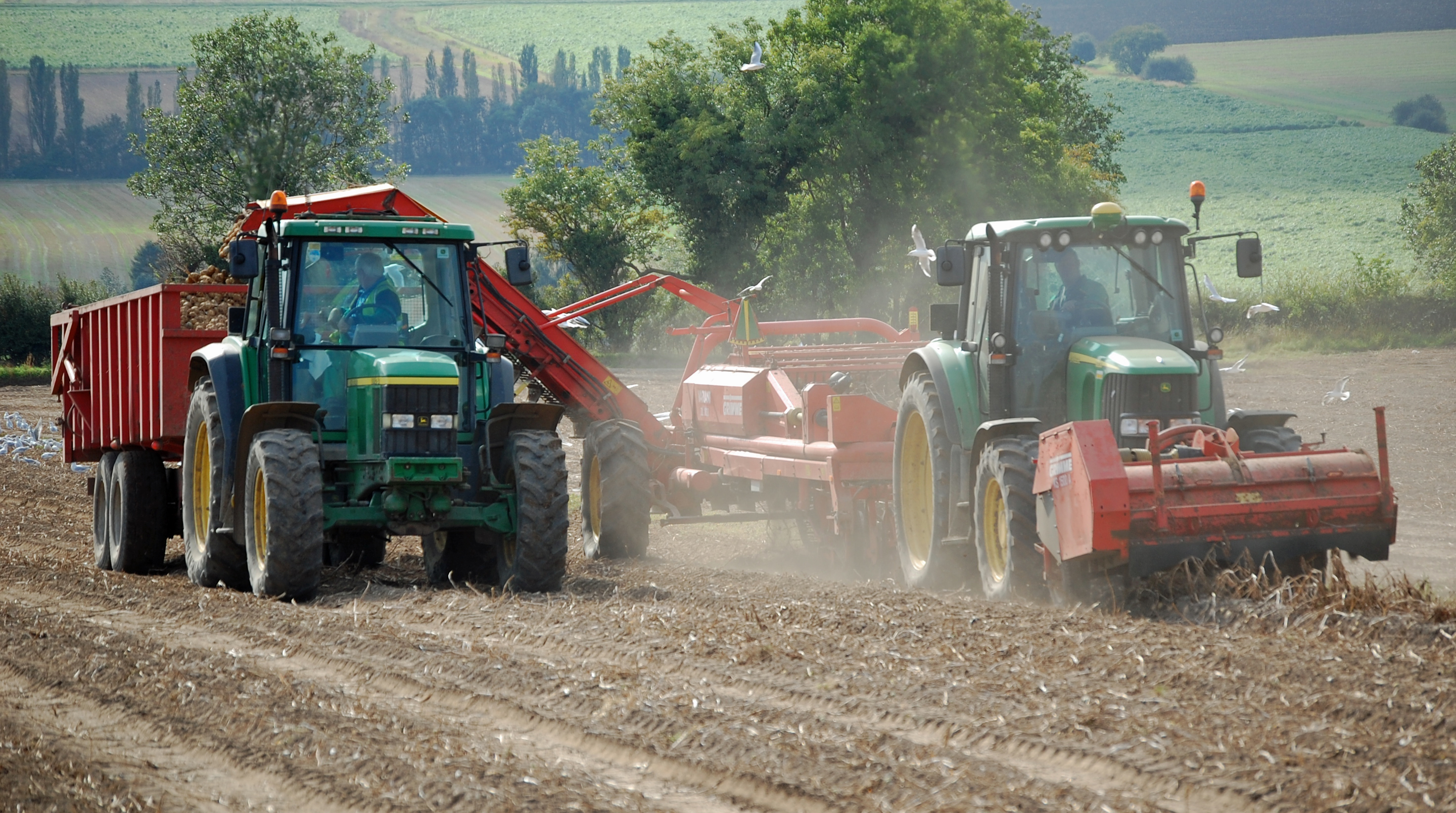 Lifting potatoes near Bonby, North Lincolnshire, England. – Two John Deere tractors, the left one is pulling a dumper trailer, the right one is fitted with a Grimme KS 1500 A 2-row haulm topper and a trailed Grimme (DL 1700 Variant?) potato harvester.